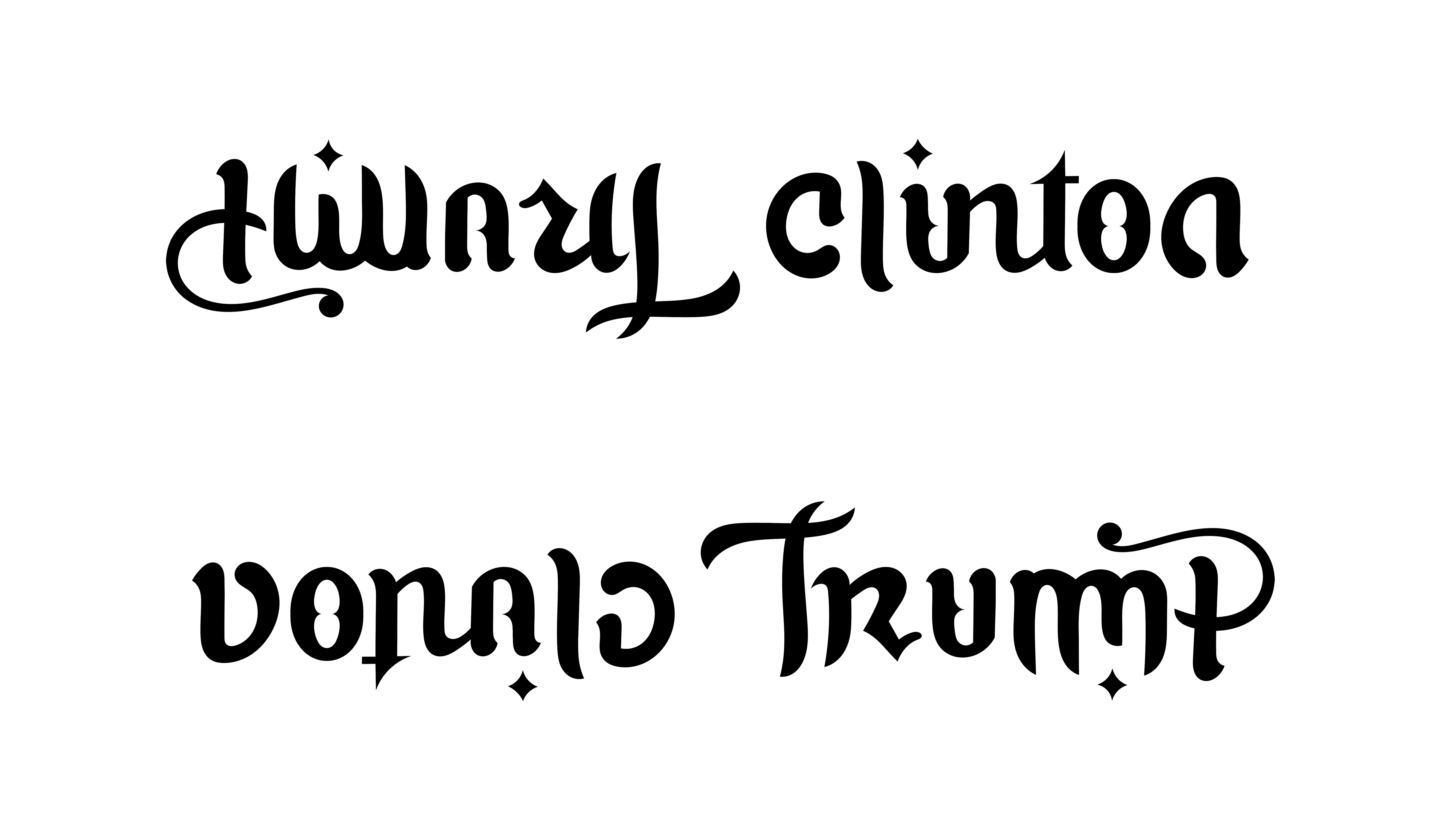 Ambigram Hillary Clinton / Donald Trump, rotational symmetry of 180 degrees. This creation was done before the results of the US presidential election of 2016, where most of the surveys predicted Clinton winner, while Trump finally got elected